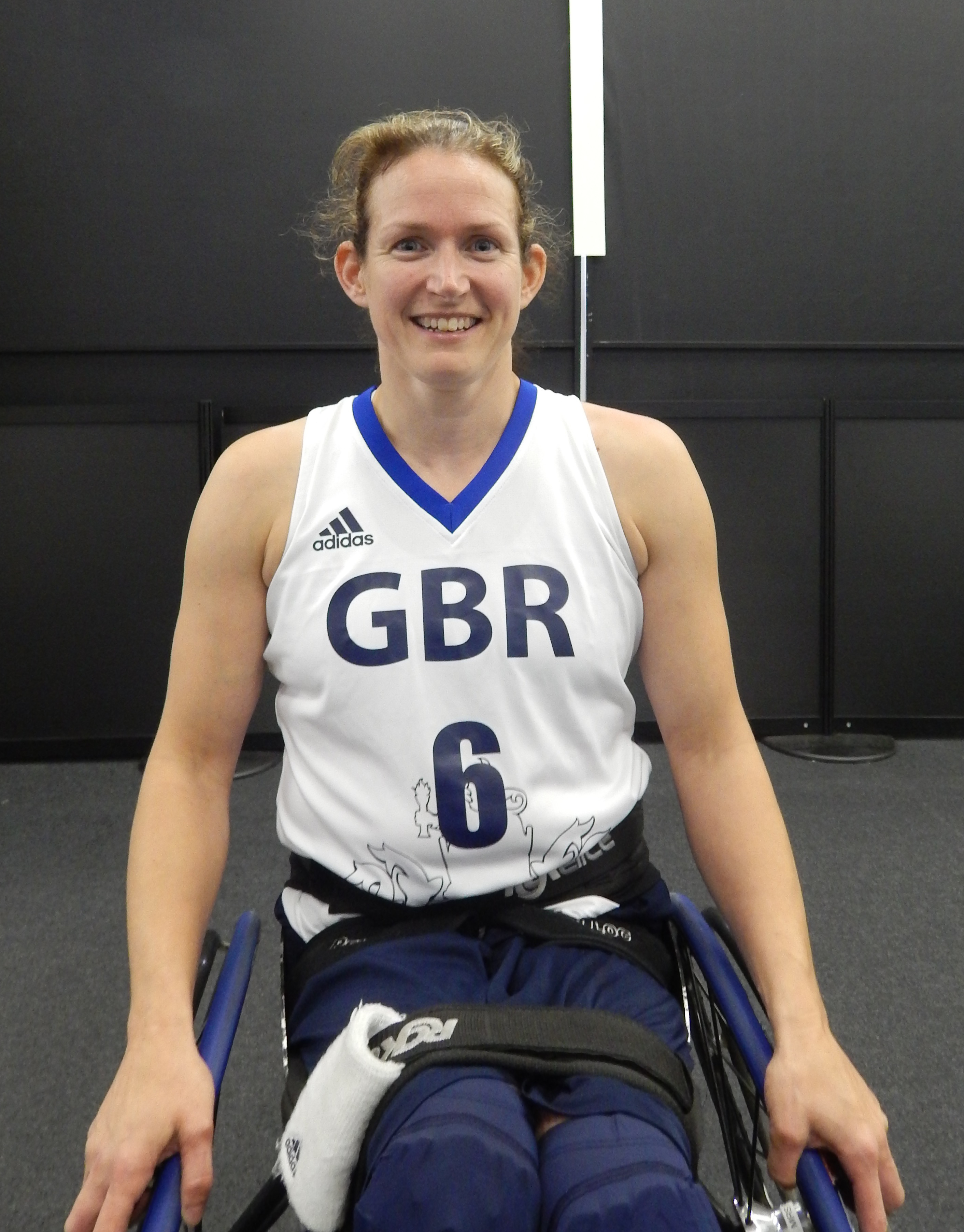 Team Great Britain wheelchair basketball player Clare Griffiths at the 2016 Paralympic Games in Rio de Janeiro